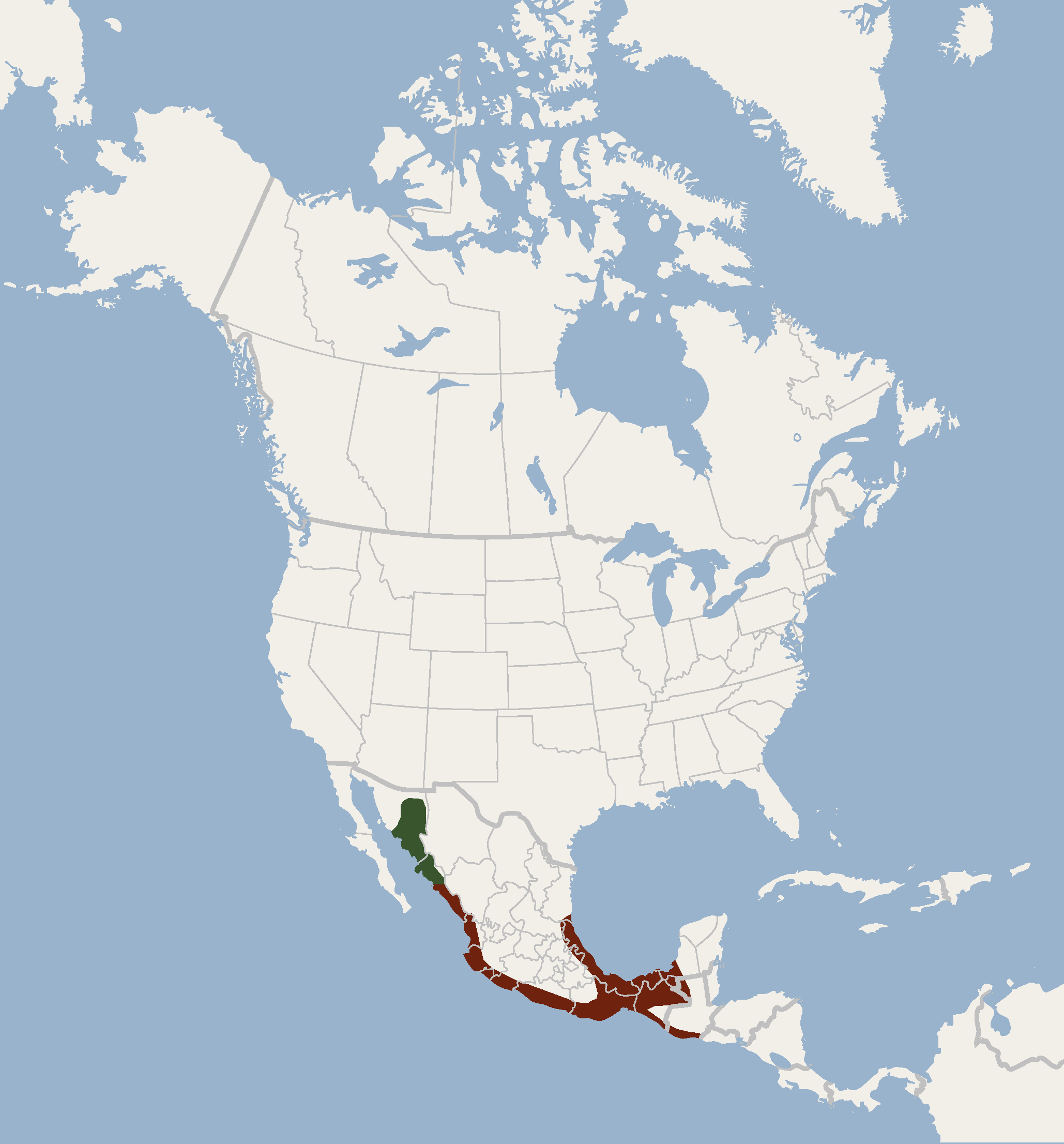 Geographical distribution of Myotis fortidens according to Reid, 2009